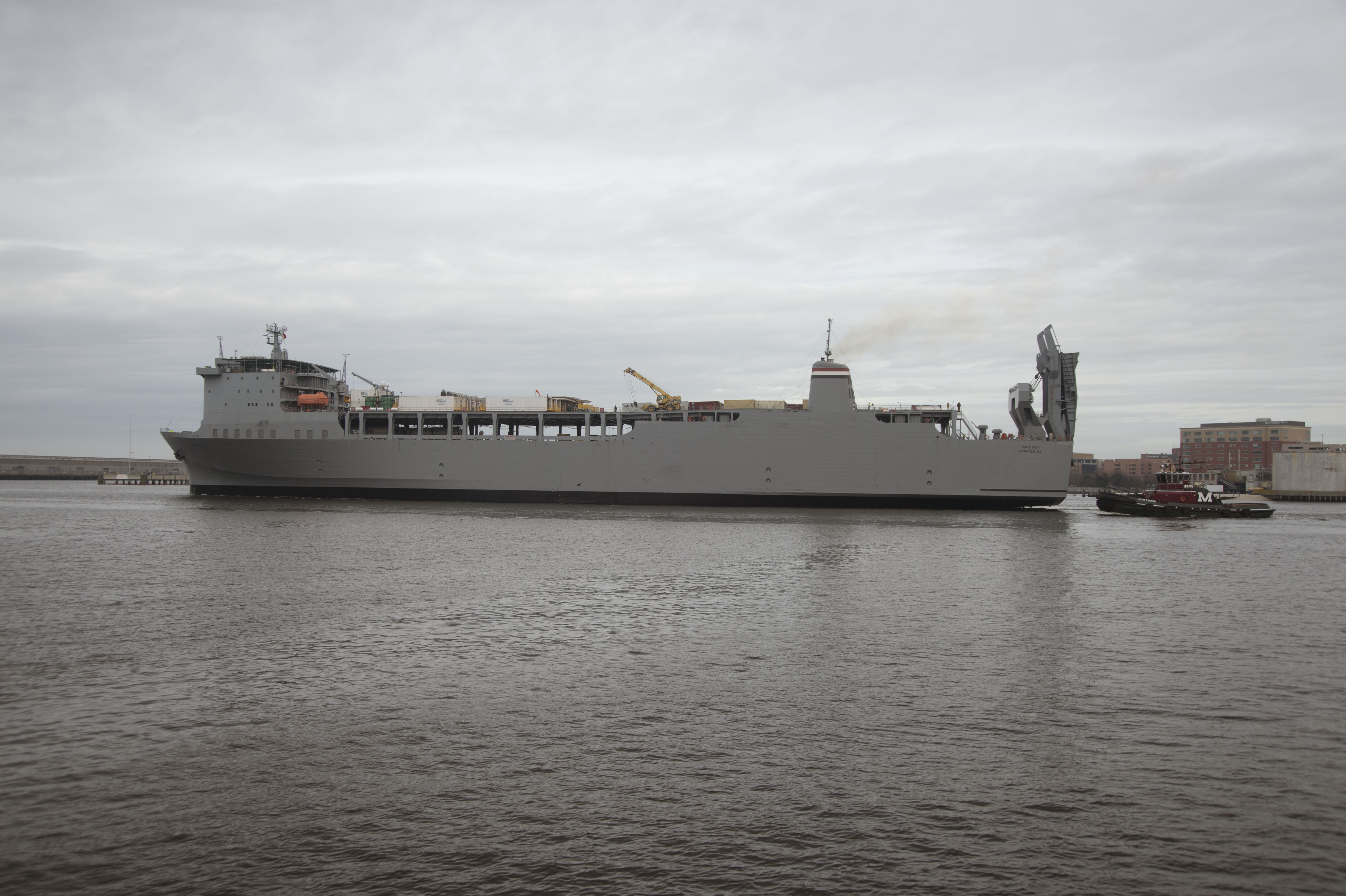 The U.S. Military Sealift Command container ship MV Cape Ray (T-AKR-9679) departs row General Dynamics NASSCO-Norfolk shipyard, Virginia (USA), for sea trials.